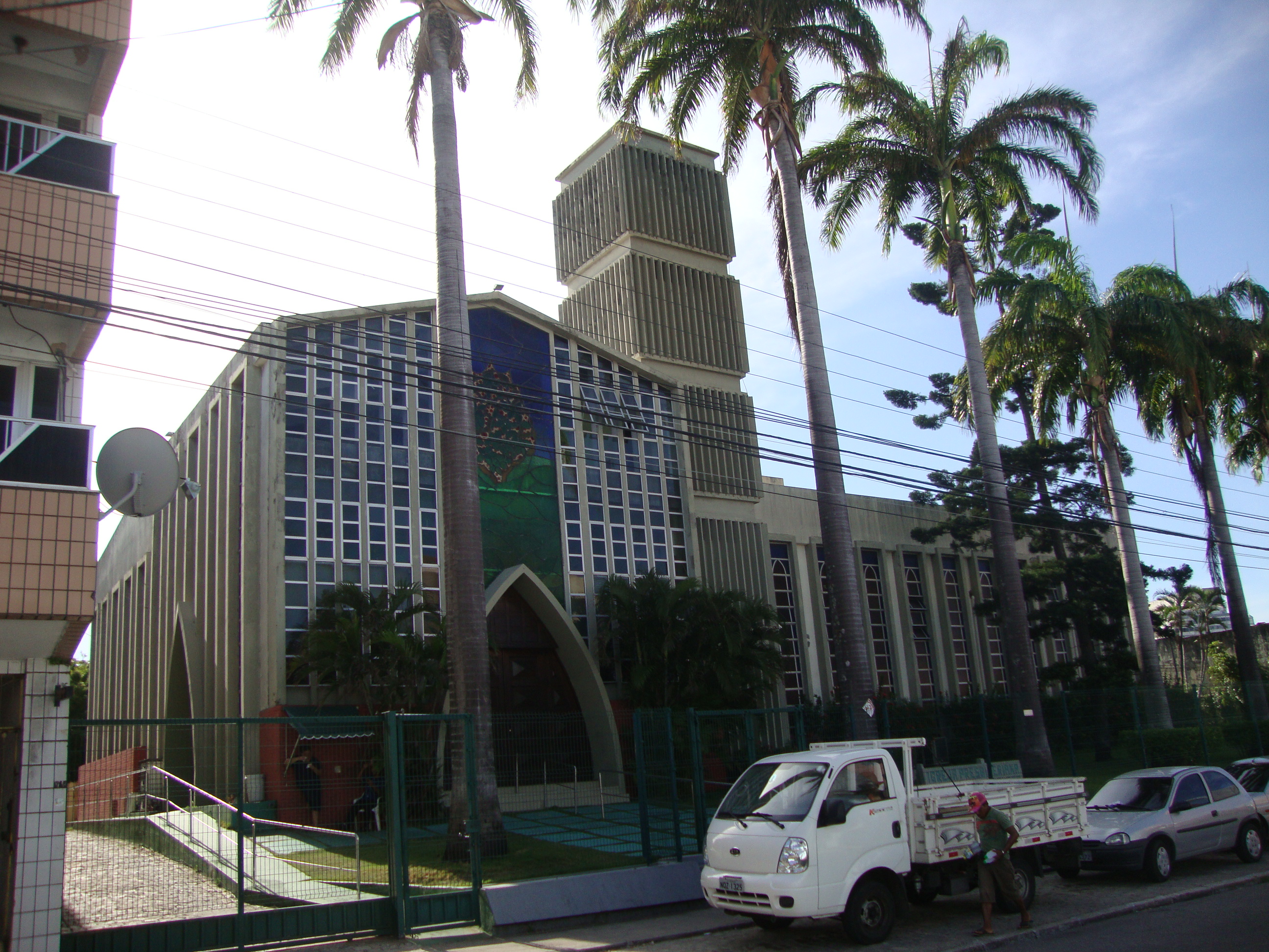 Presbyterian Church of Fortaleza.